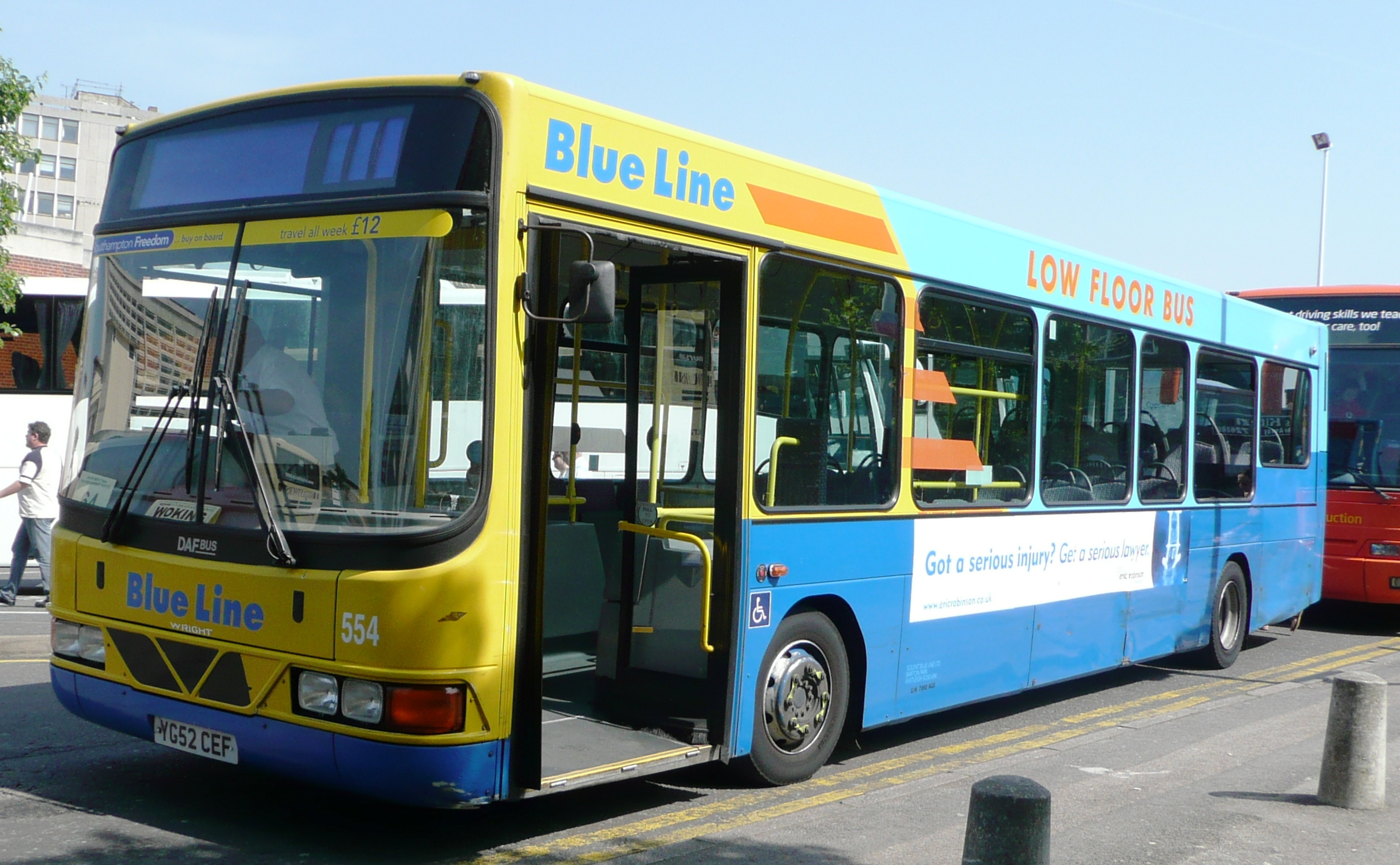 Solent Blue Line's 554, a DAF SB120/Wright Cadet.